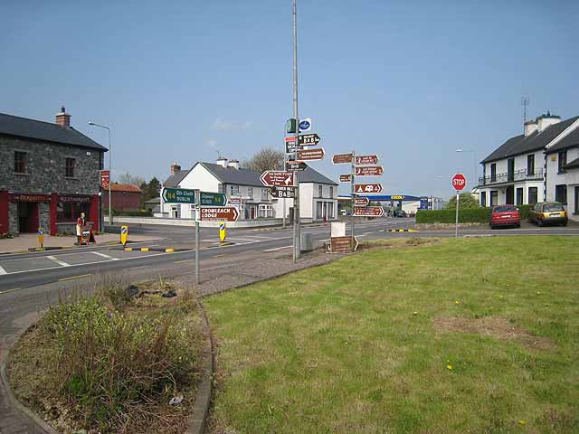 Castlebaldwin crossroads, near to Castlebaldwin, Bellarush Bridge and Drumcormick, Sligo, Ireland. An important village on the busy N4 Dublin to Sligo road. Brown signs indicate a number of tourist attractions in the vicinity.